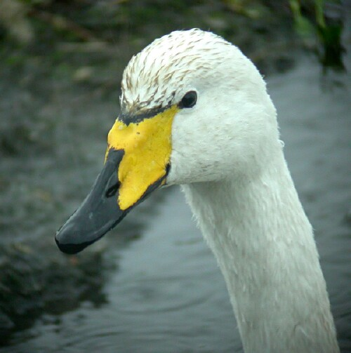 Whooper Swan taken by myself at Welney, UK in October 2004. Quentin Goodman